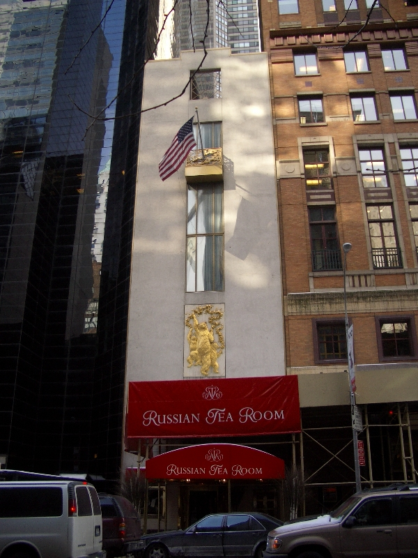 Russian Tea Room, NYC, NY, USA